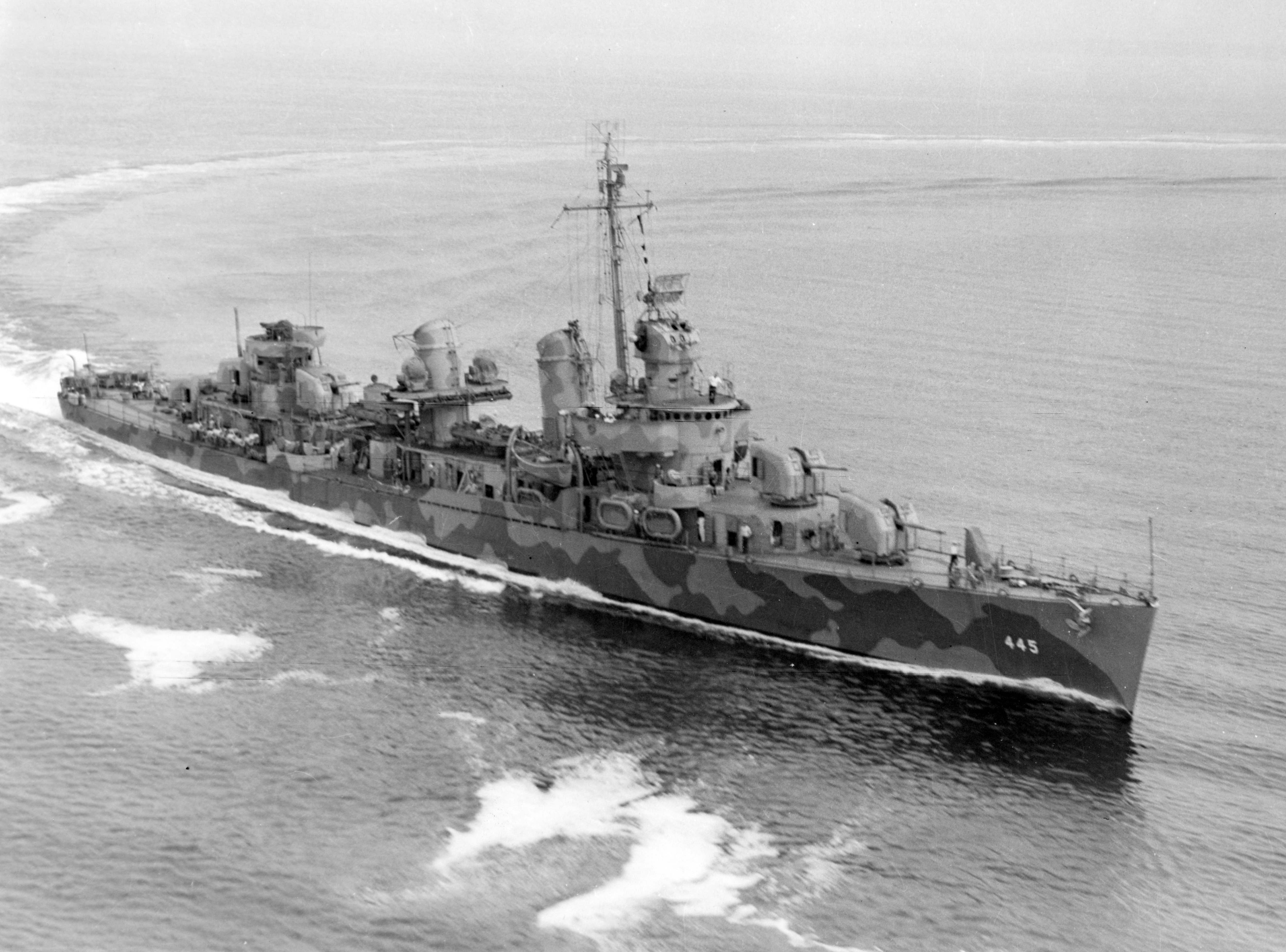 The U.S. Navy destroyer USS Fletcher (DD-445) maneuvering off New York City (USA) on 18 July 1942. She is painted in Camouflage Measure 12 (Modified).